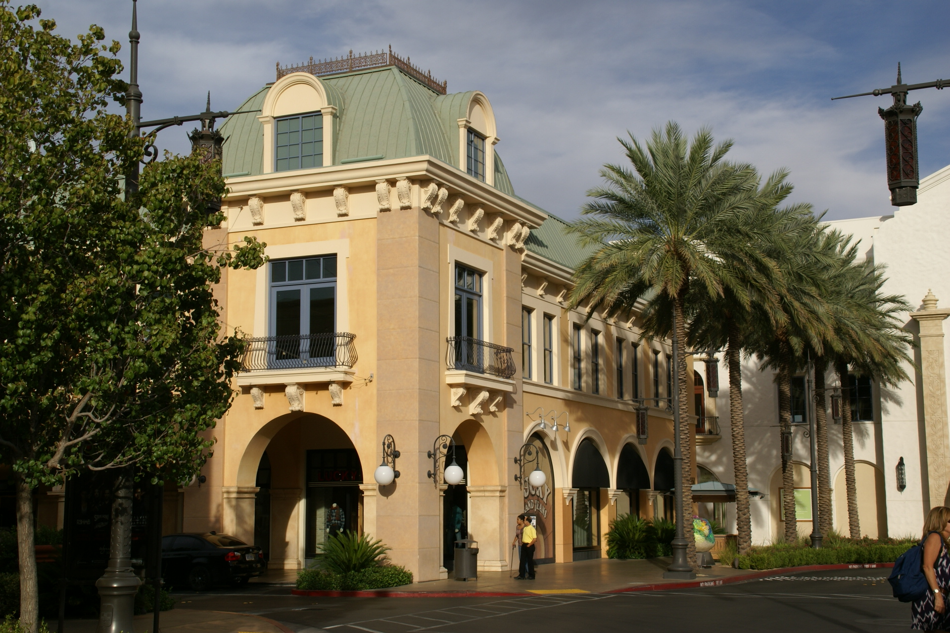 Shops in Town Square, Las Vegas, Nevada, USA